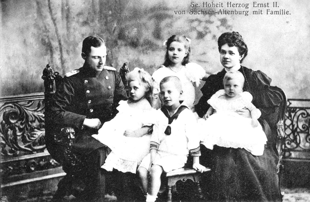 Ernst II, Duke of Saxe-Altenburg (1871-1955) with wife, Princess Adelaide of Schaumburg-Lippe, and their children, post card ca. 1906/07